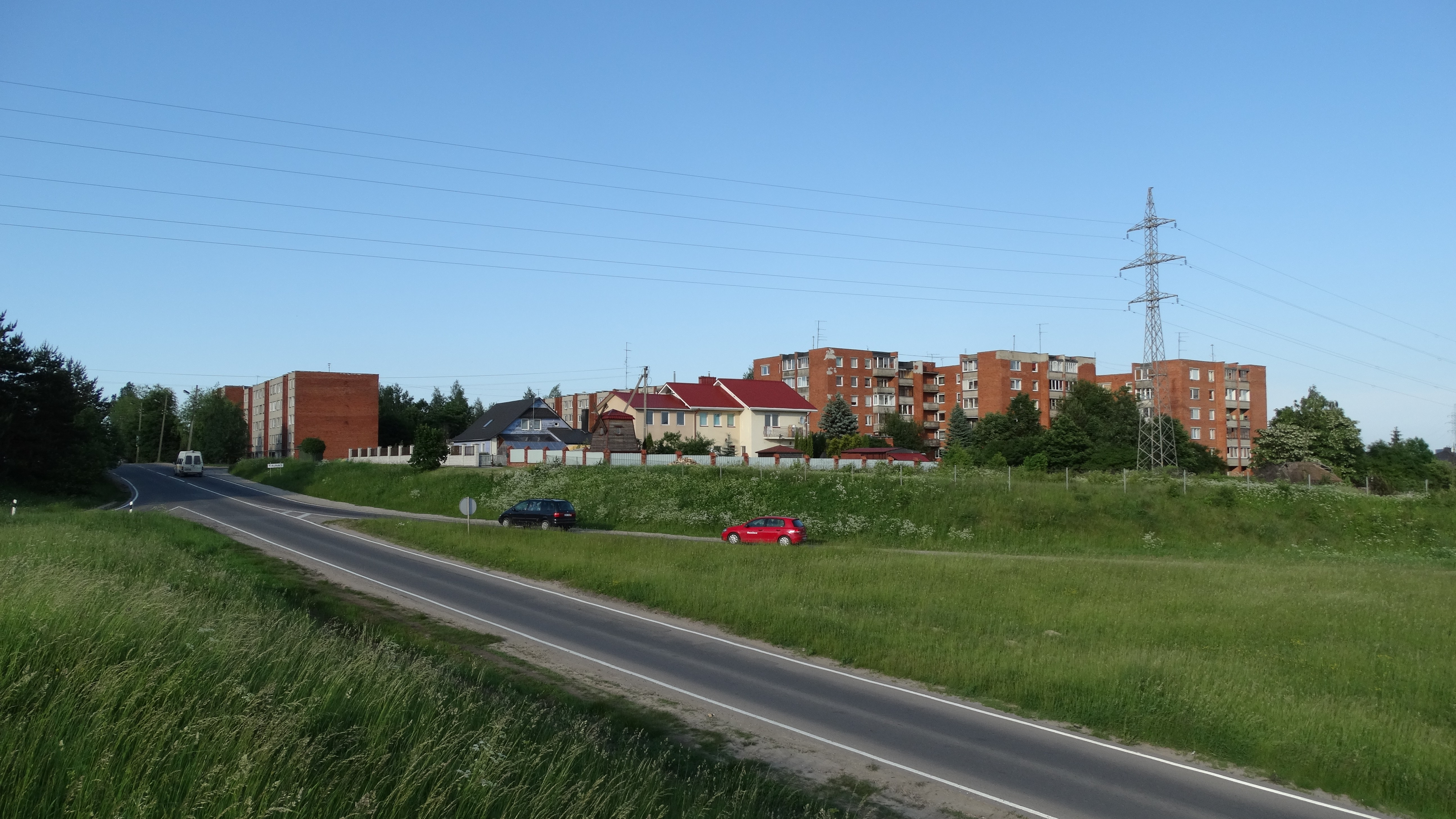 Sargėnai (Kaunas), Lithuania